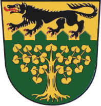 Coat of Arms of Langenwolschendorf